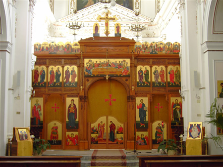 Iconostasis of the Church SS. Annunziata e San Nicolò.